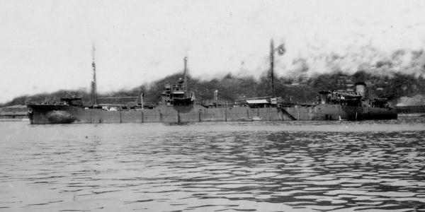 Japanese oiler OSE at Sasebo Naval Base, ex-Dutch tanker GENODA.